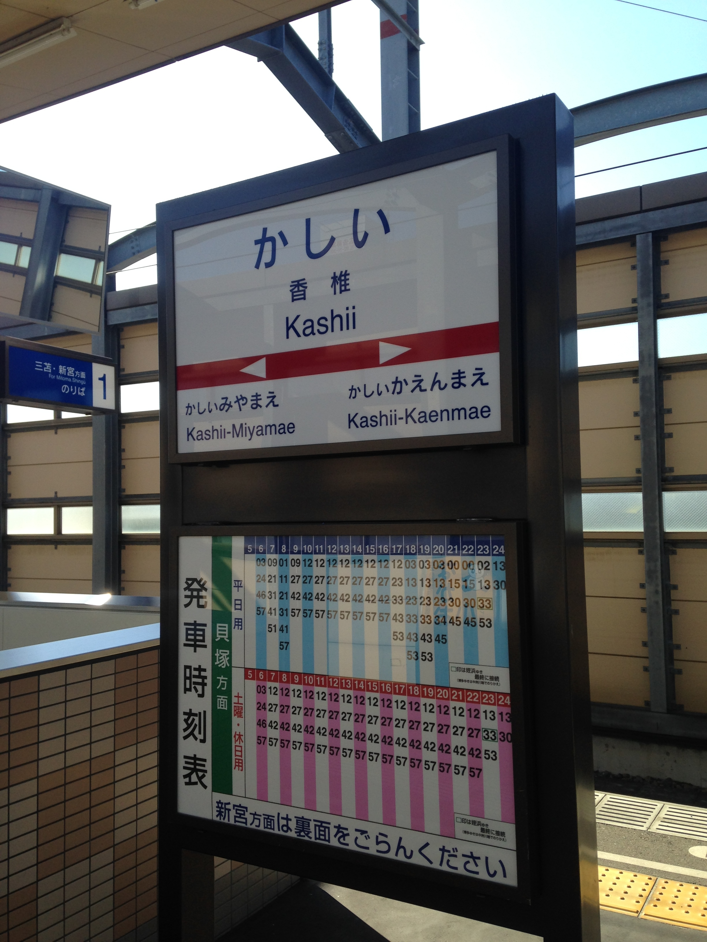 Station sign for Nishitetsu Kashii Station